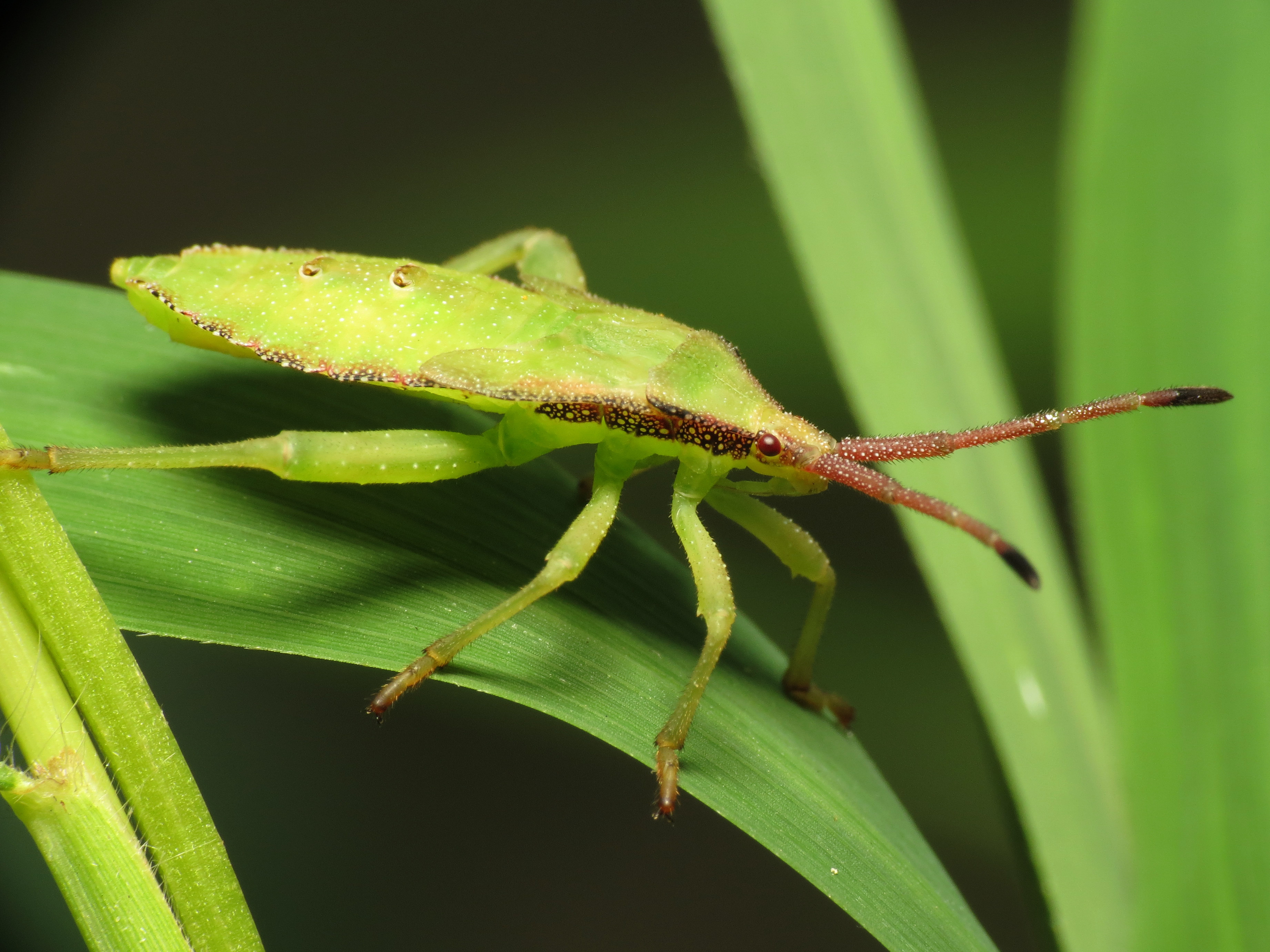 Piezogaster sp. Heritage Island, Anacostia River, Washington, DC, USA. 4 August 2012.